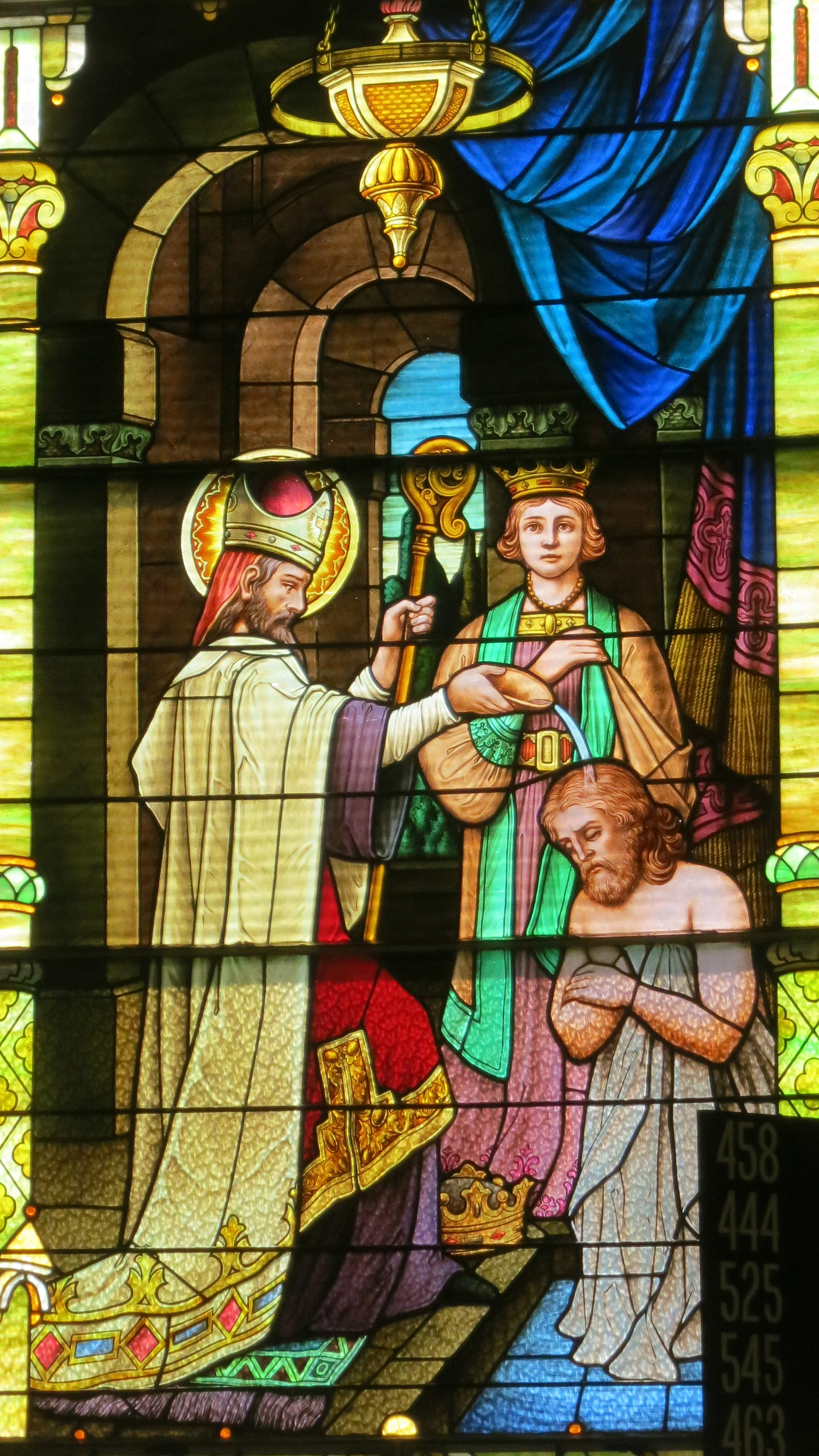 Saint Remy Catholic Church (Russia, Ohio) - stained glass, Saint Remigius baptizing Clovis I